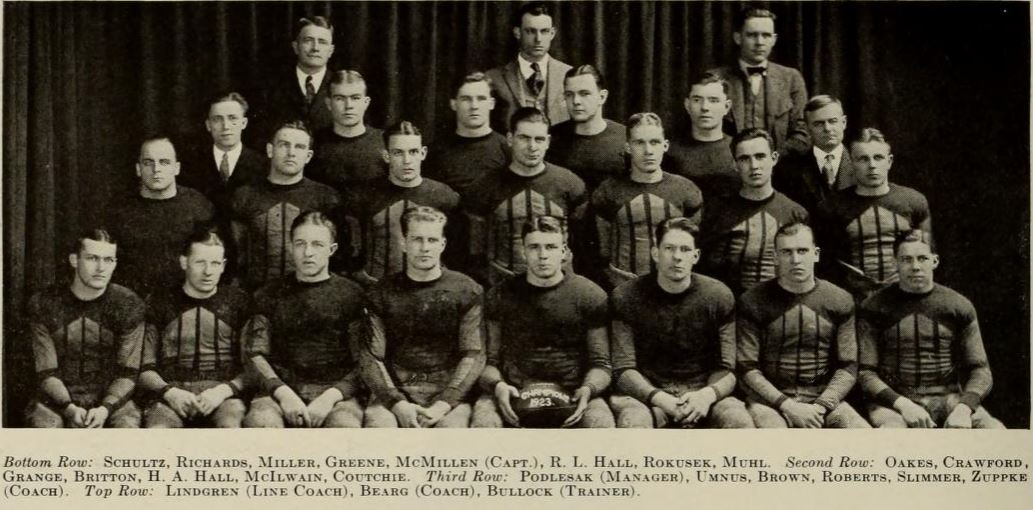 The University of Illinois' 1923 National Championship football team.